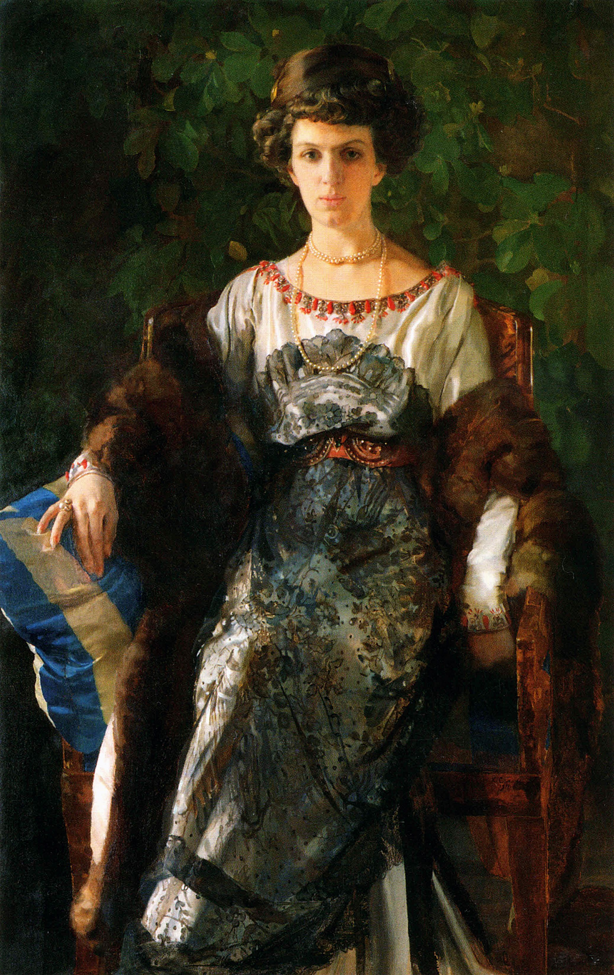 Euphimia Pavlovna Nosova was born in 1886 (or in 1881, 1883; different sources give various dates of her life). She was a daughter of P.M. Ryabushinsky, one of the richest merchants of Russia. In 1910 Euphimia married V.V. Nosov, the son of the manufacturer V.D. Nosov. She was known as a patroness of art and a collector of artworks. After the October Revolution E.P. Nosova abandoned Russia; the information about her life in emigration is scanty. Most probably, Euphimia Nosova died in 1976 (or in 1970) in Rome, Italy.Euphimia Nosova is portrayed in the gown made by the studio of the noted Russian fashion designer Nadezhda Lamanova (1861–1941).